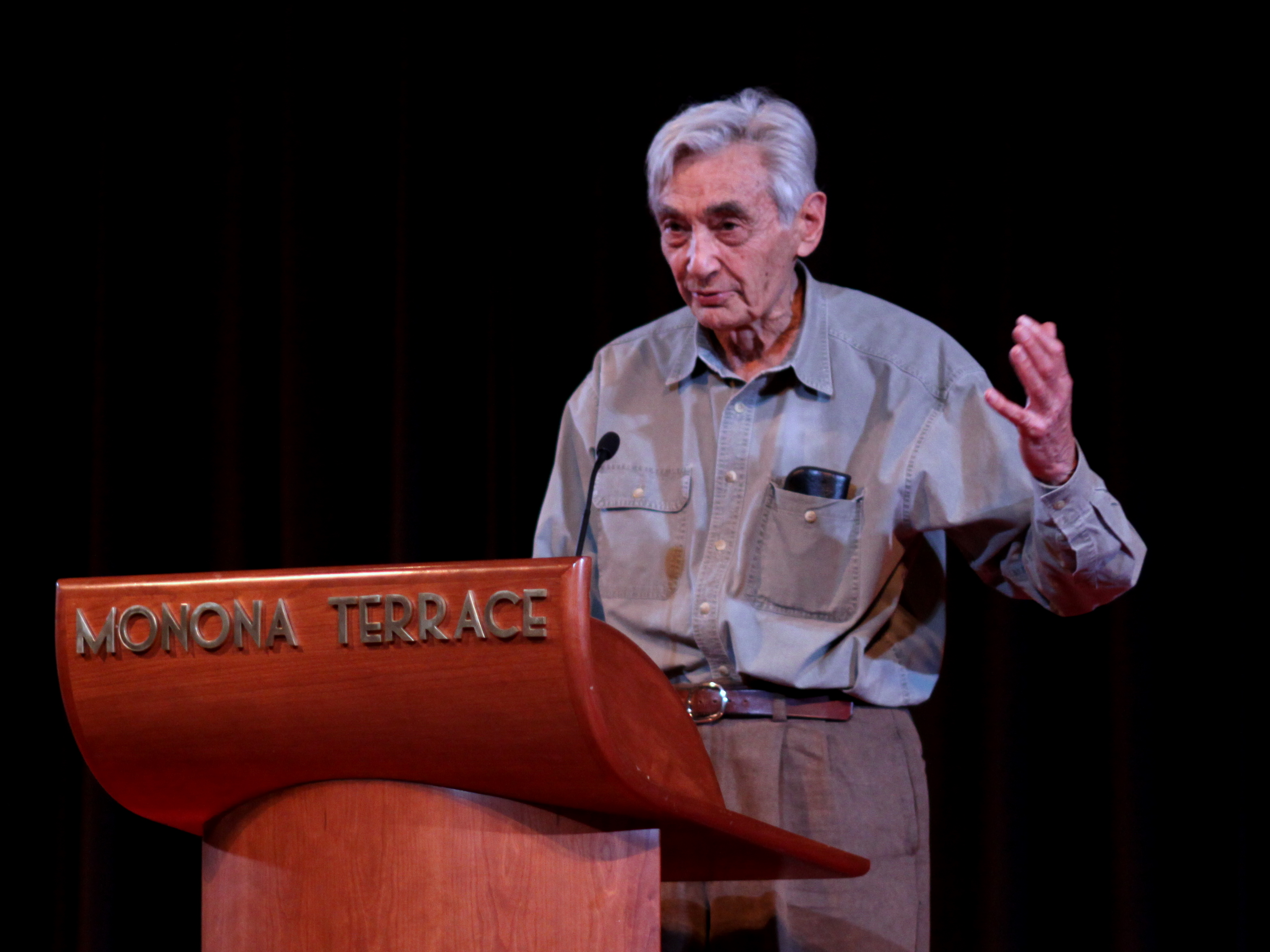 Howard Zinn, historian, in 2009.